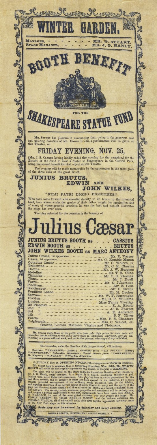 Handbill for Shakespeare's Julius Caesar at The Winter Garden Theatre, November 25, 1864, featuring Junius Brutus Booth, Edwin Booth and John Wilkes Booth.